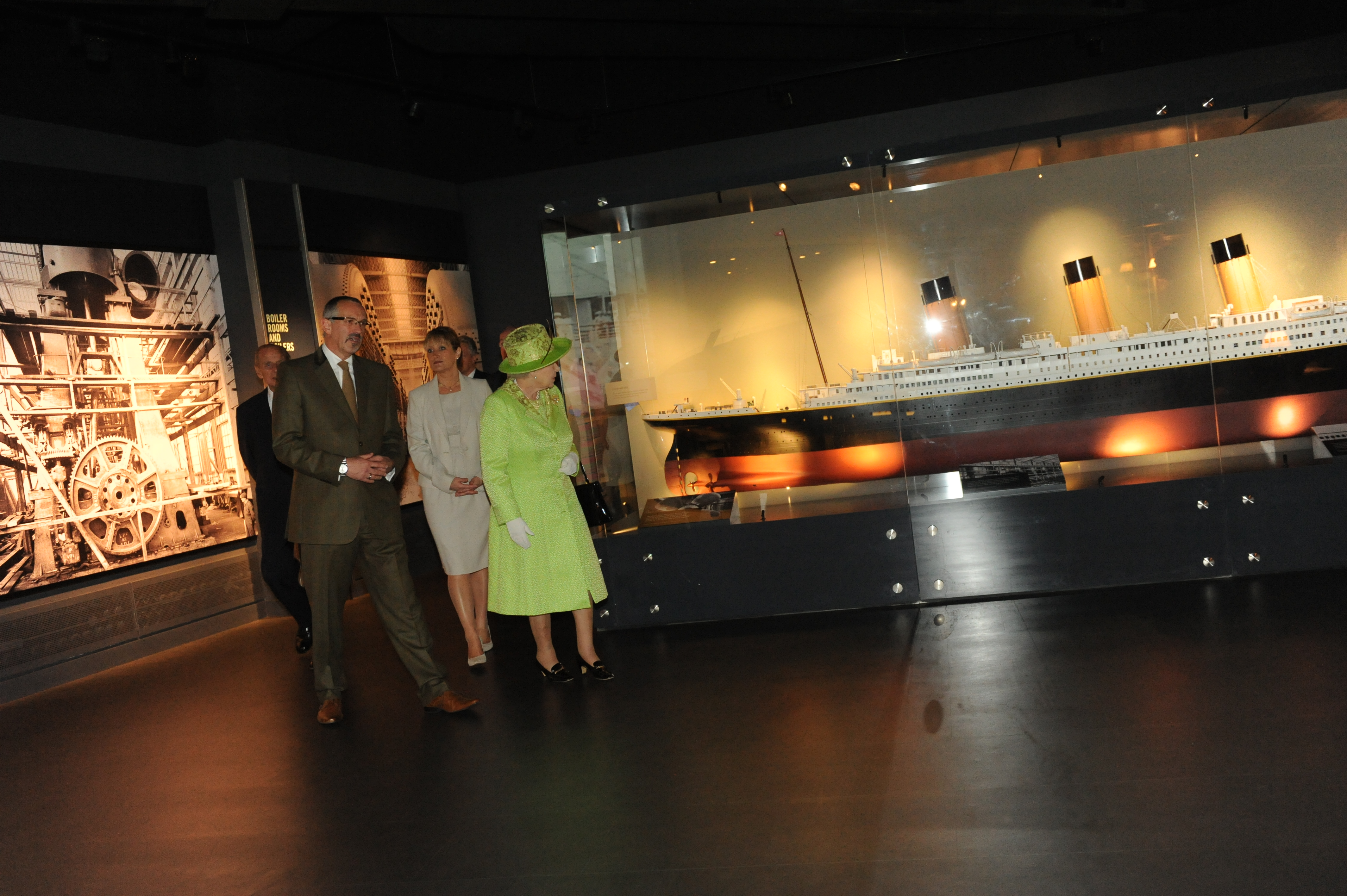 Her Majesty the Queen and His Royal Highness Prince Philip visit to Titanic Belfast on the historic day she shook hands with Martin McGuinness - 27th June 2012